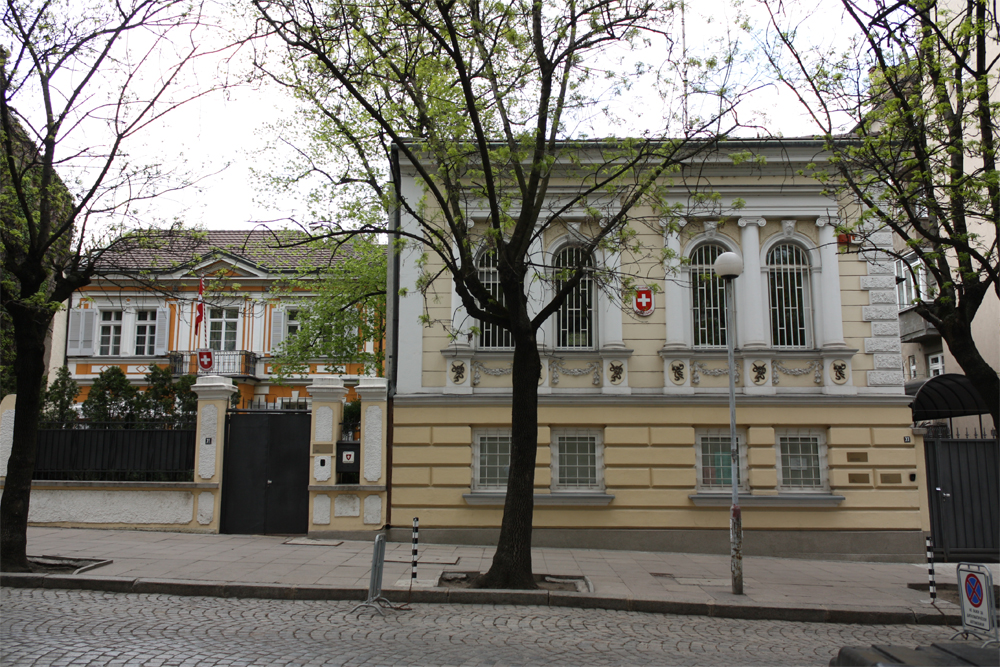 Swiss Embassy in Sofia Bulgaria